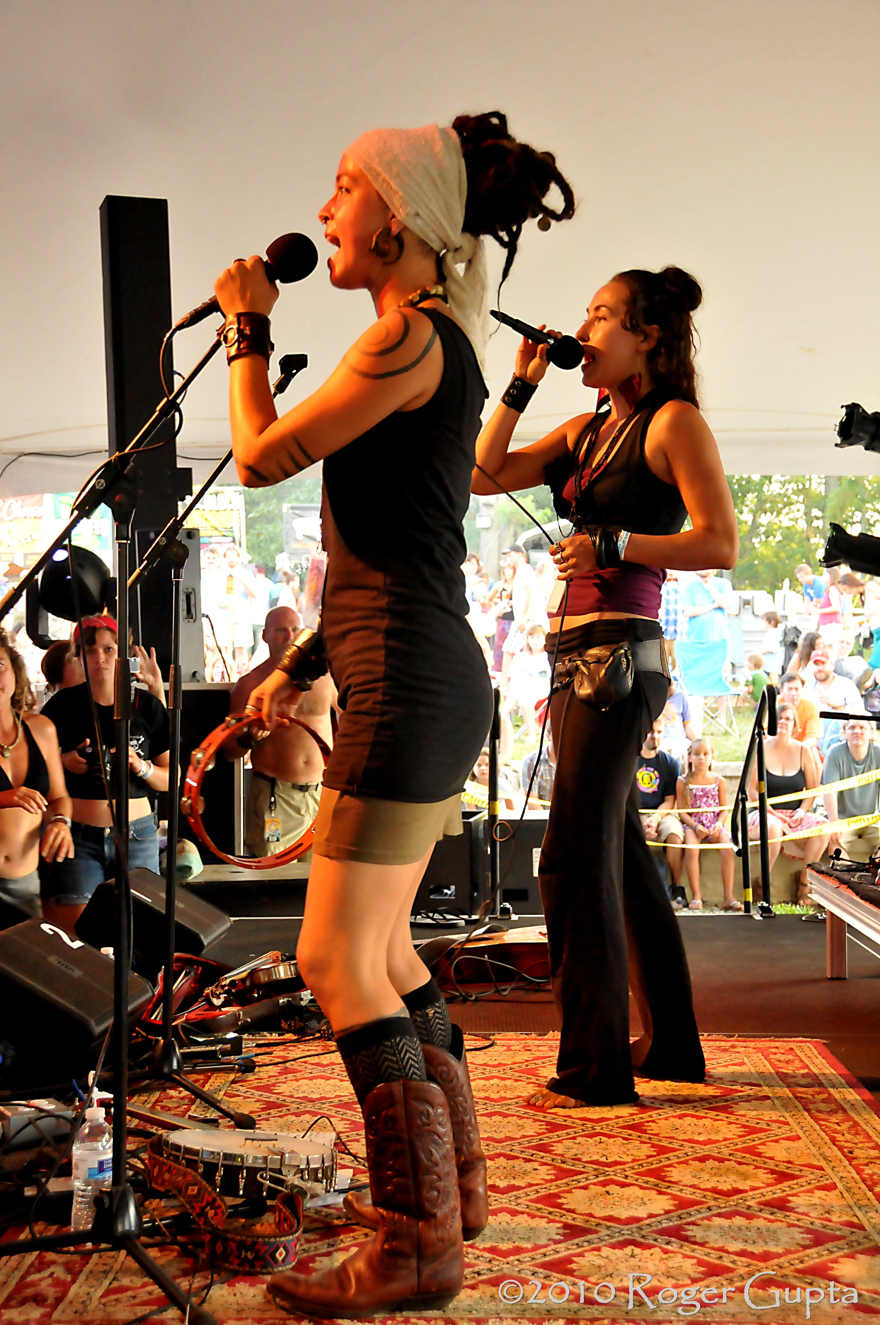 Rising Appalachia (Leah and Chloe Smith) at the FloydFest 9 in Floyd, Virginia on 23 July 2010.